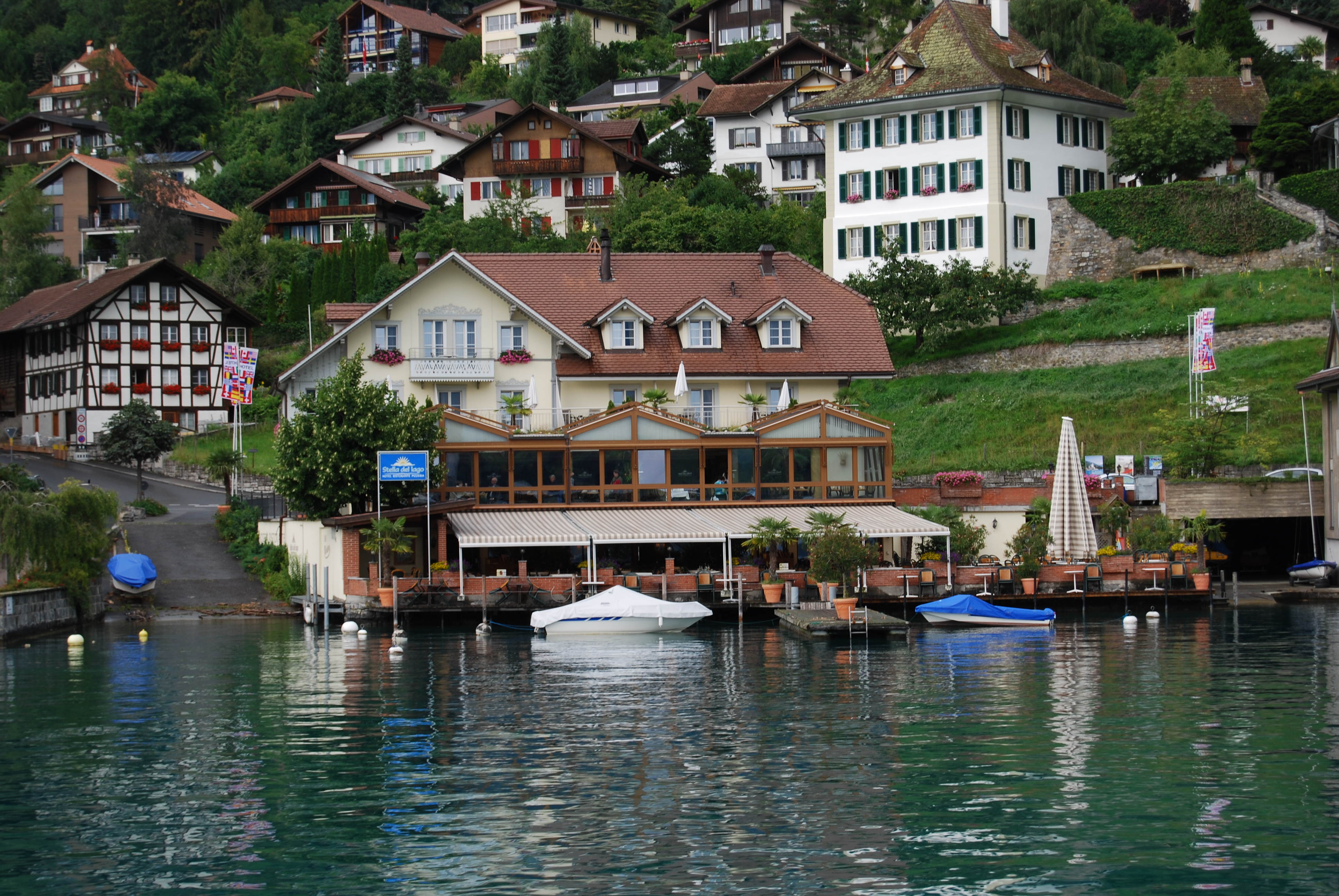 Hilterfingen, canton of Bern, SwitzerlandEsperanto: Hilterfingen, Kantono Berno, Svislando